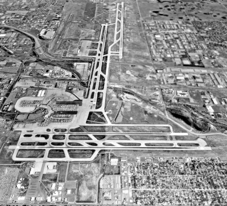 Aerial image of Stapleton International Airport before its closure.